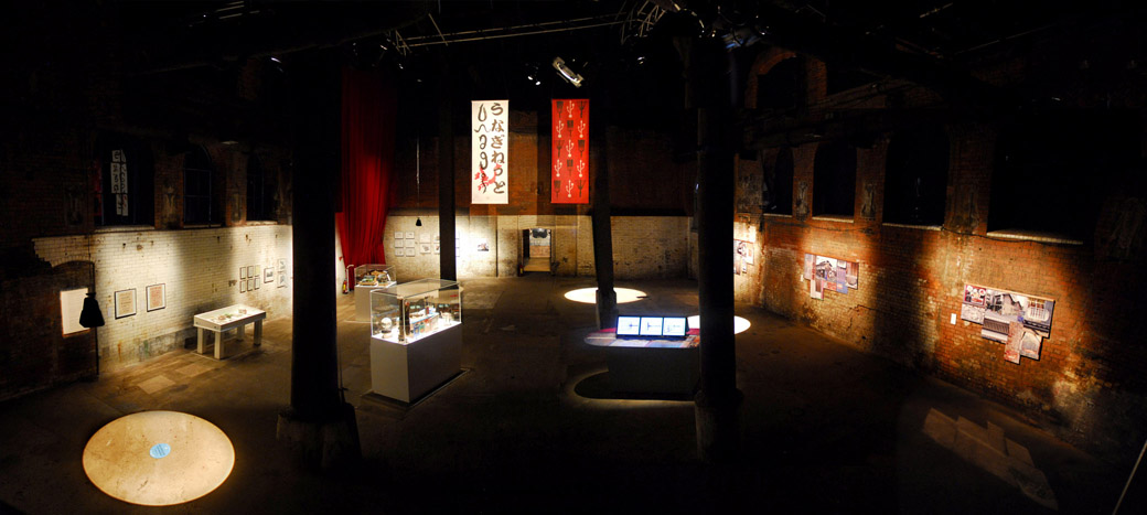 Exhibition: Jake Tilson and Kyoichi Tsuzuki, A Net of Eels, commissioned by The Film & Video Umbrella in association with the Wapping Project, 2009.